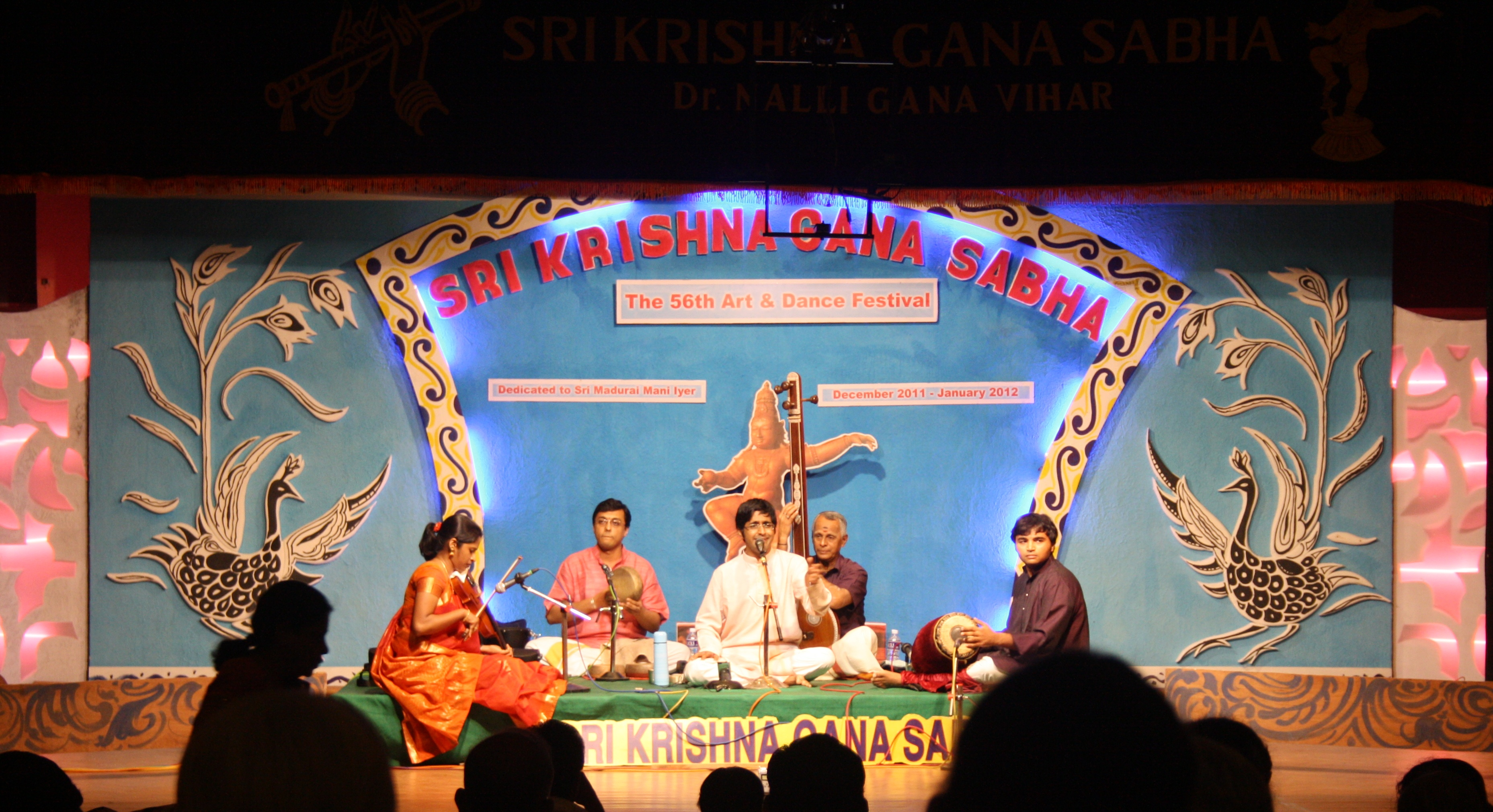 A performance of Carnatic music where-in the violinist is sitting on the right of singer and Mridangist is sitting on the left, because the Mridangam player is a left handed player. Abhishek Raghuram performs at Sri Krishna Gana Sabha on 11 December, 2011 accompanied by Akkarai S Subhalakshmi on his right playing violin, G Guruprasanna playing Kanjira also sitting on his right and Anantha R Krishnan playing Mridangam sitting on Abhishek's left.